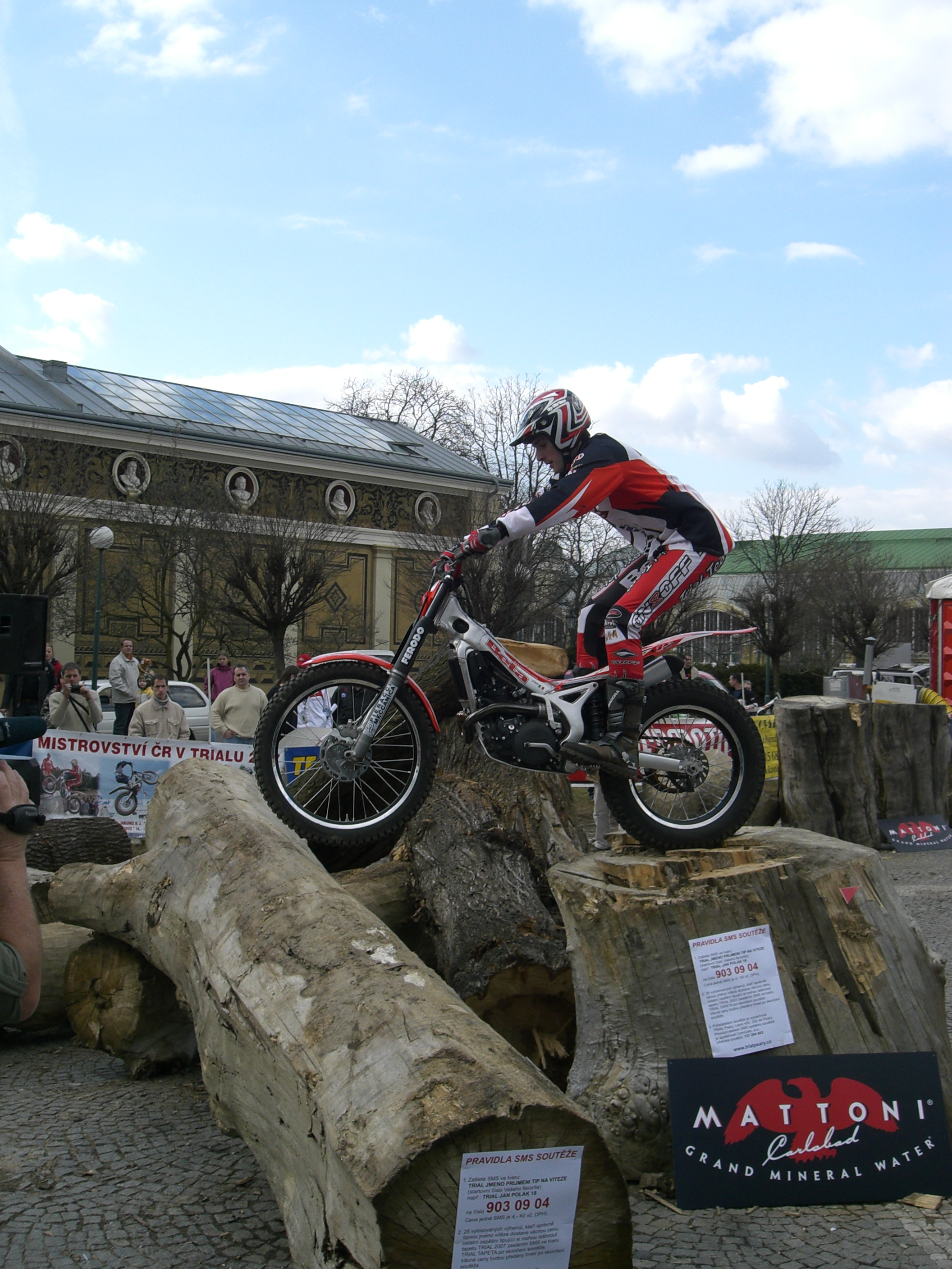 Motorcycle Trial rider during qualification on Pražské výstaviště in Holešovice. Praha 9. March 2007